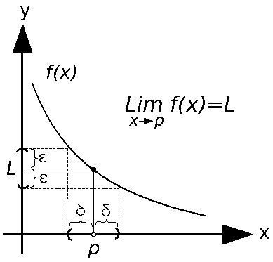 limit definition